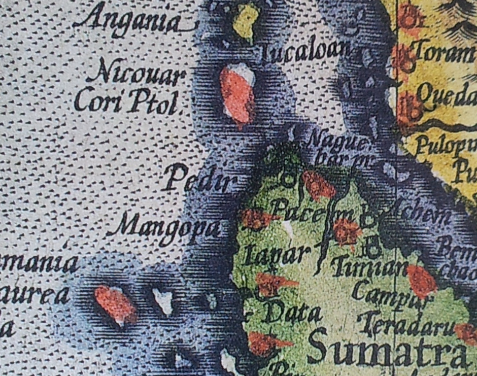 Location of Pedir on the Map Asia in Part III (published in 1595) of the World Atlas of Gerardus Mercator